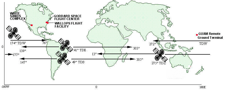 TDRSS Constellation Coverage Map